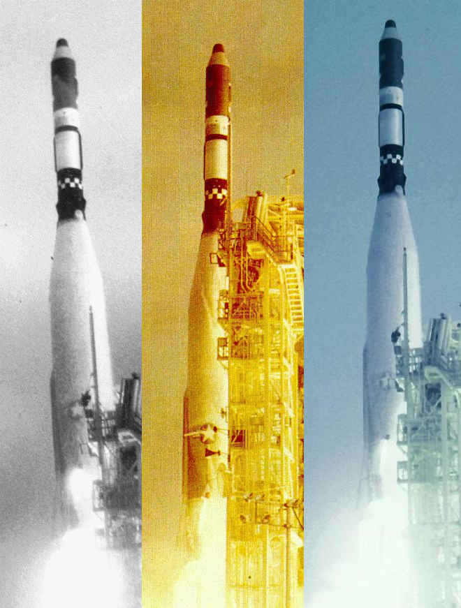 Composition of three photos taken during launch of launch vehicle Atlas LV-3A Agena D with KH-7 04 spy satellite